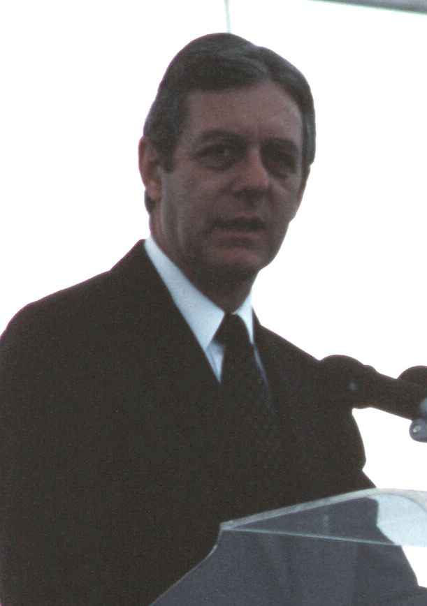 "The Honorable Joe Frank Harris, Governor of Georgia, speaks at the commissioning ceremony for the nuclear-powered strategic missile submarine USS GEORGIA (SSBN 729). Location: GROTON, CONNECTICUT (CT) UNITED STATES OF AMERICA (USA)"